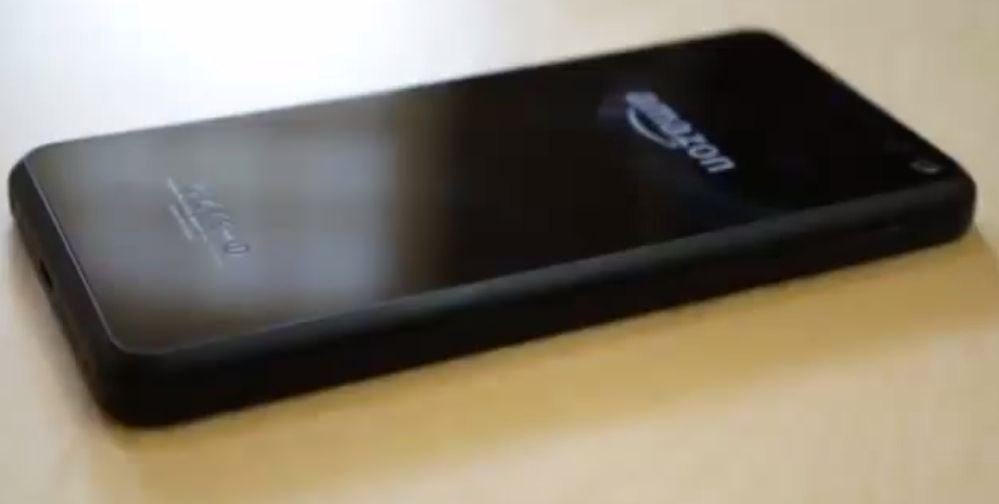 Amazon 3D Fire Smartphone-2